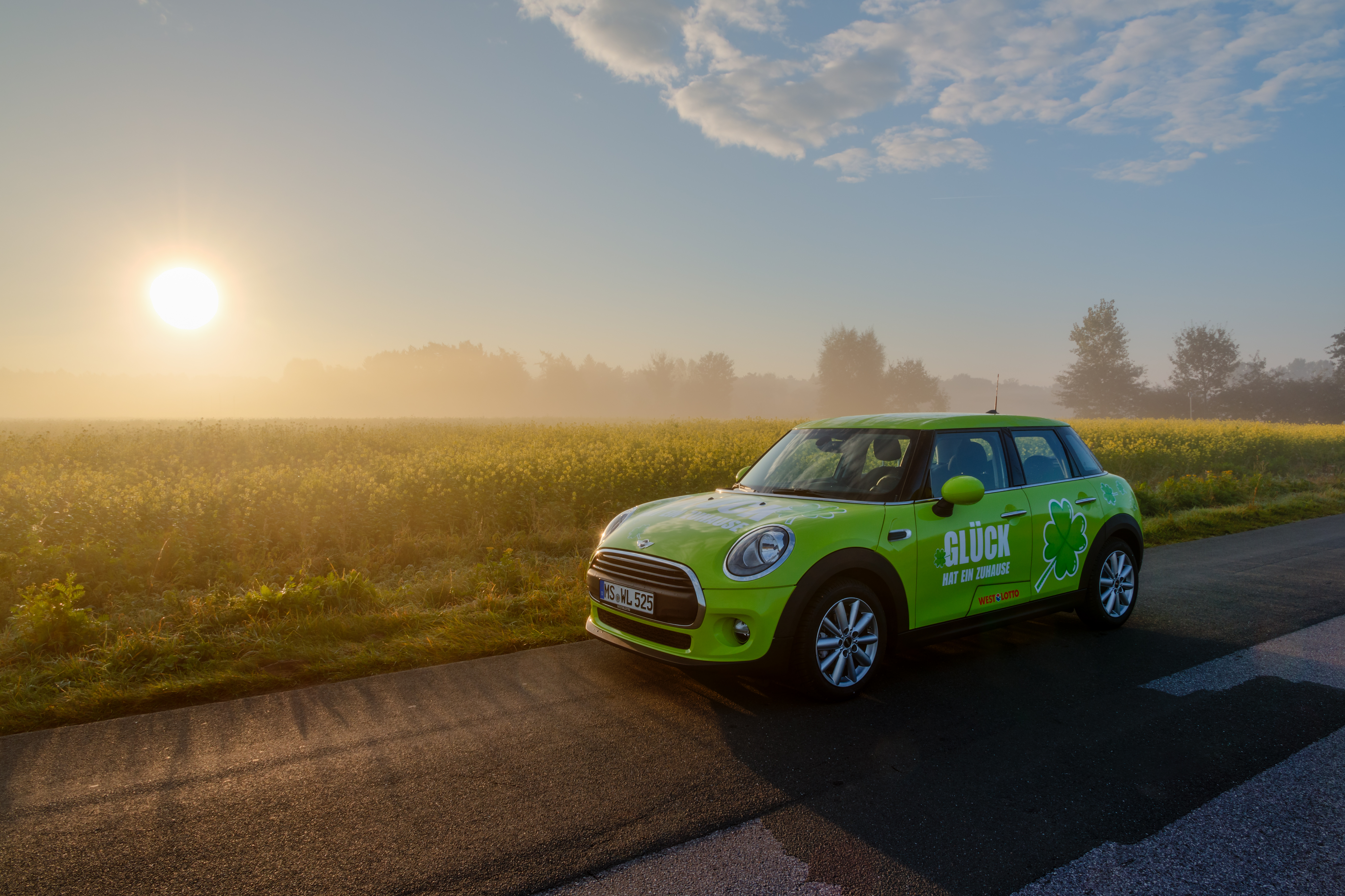 BMW Mini on a country lane in the Börnste hamlet, Kirchspiel, Dülmen, North Rhine-Westphalia, Germany